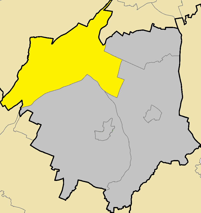 Chryseleousa in Strovolos.